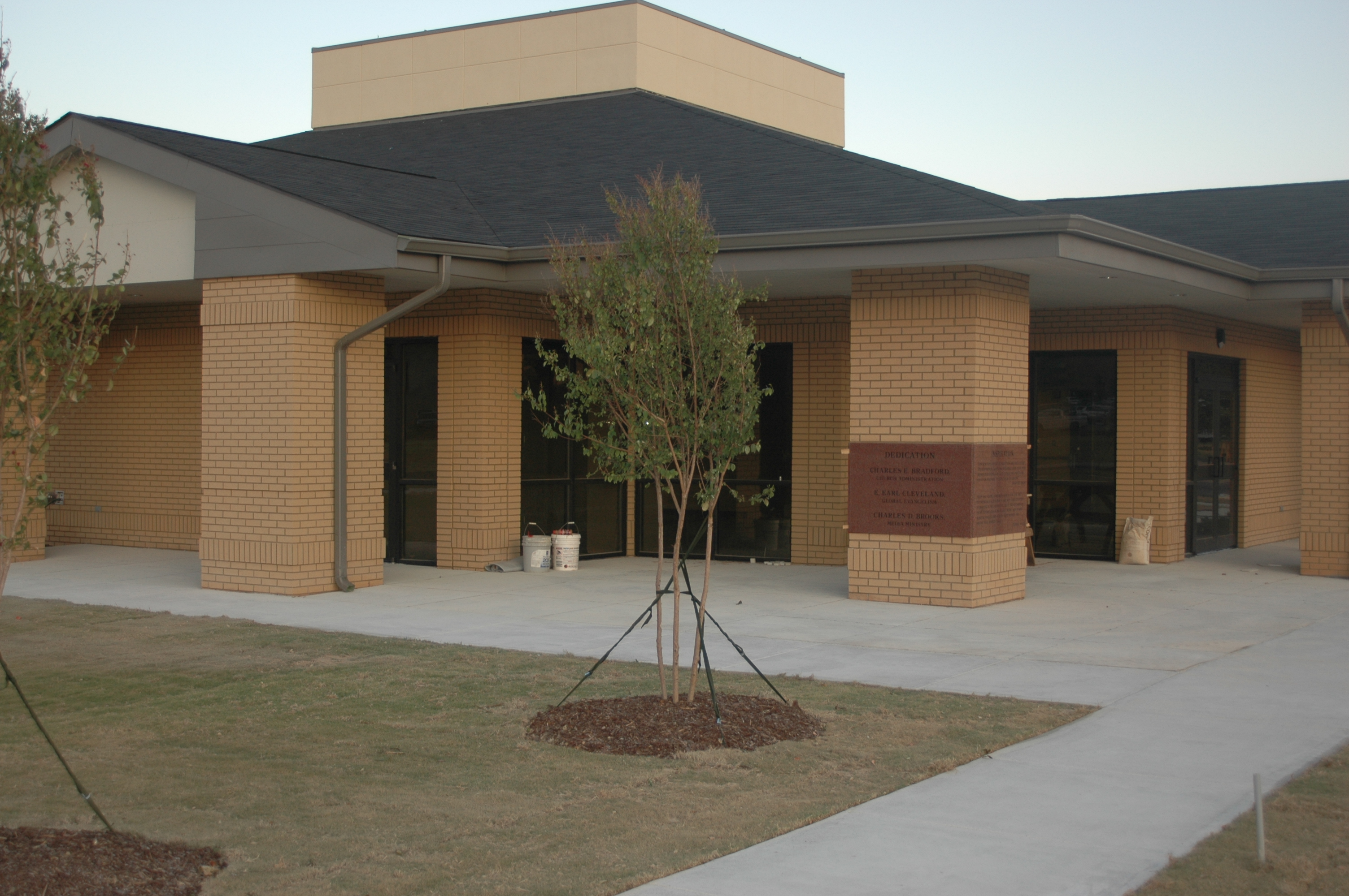 Bradford Cleveland Brooks Leadership Center at Oakwood University, Huntsville, Alabama, United States